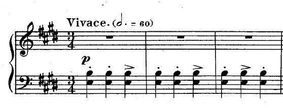 Chopin's Mazurka Op. 6 nr 3